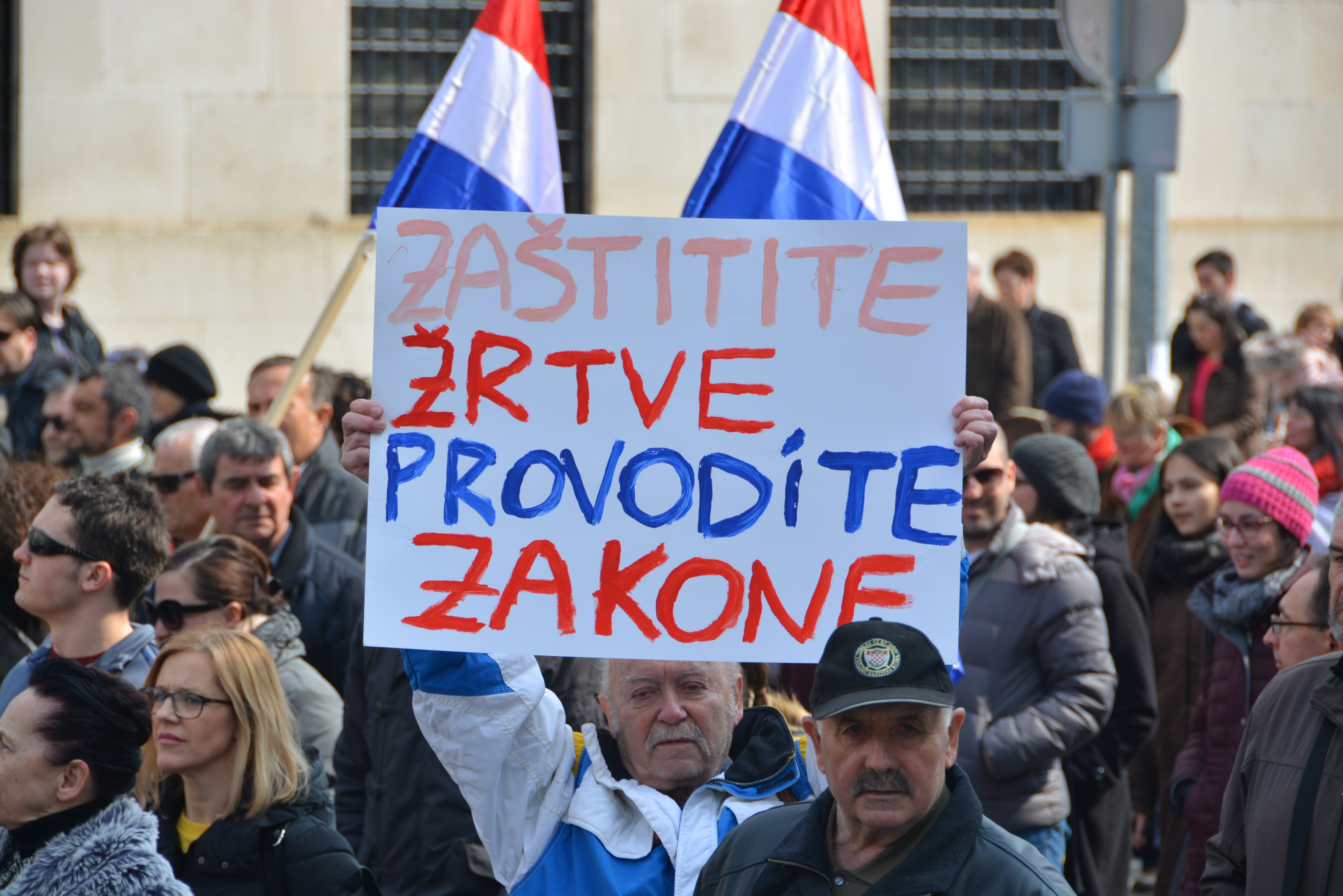 Protest against the ratification of the Istanbul Convention, March 24, 2018, Zagreb.